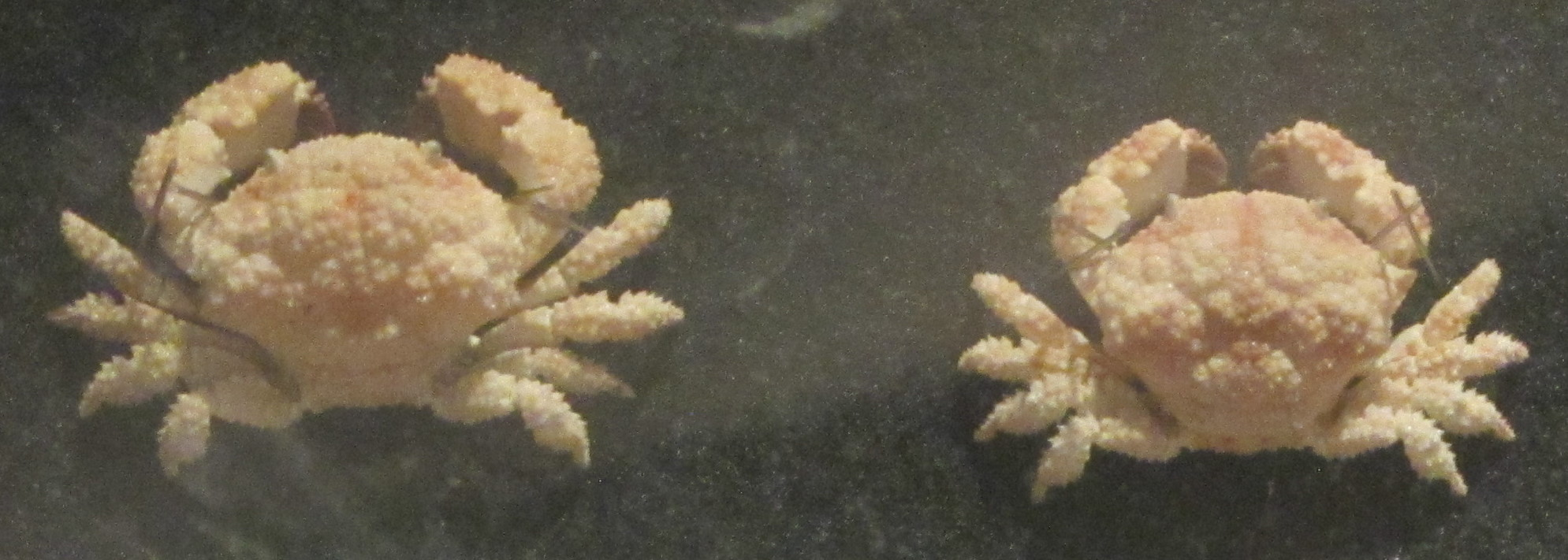 Specimen of Actaea semblatae in National Museum of Natural Science in Taiwan